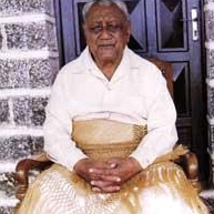 King Tomasi Kulimoetoke II the late Lavelua of Wallis